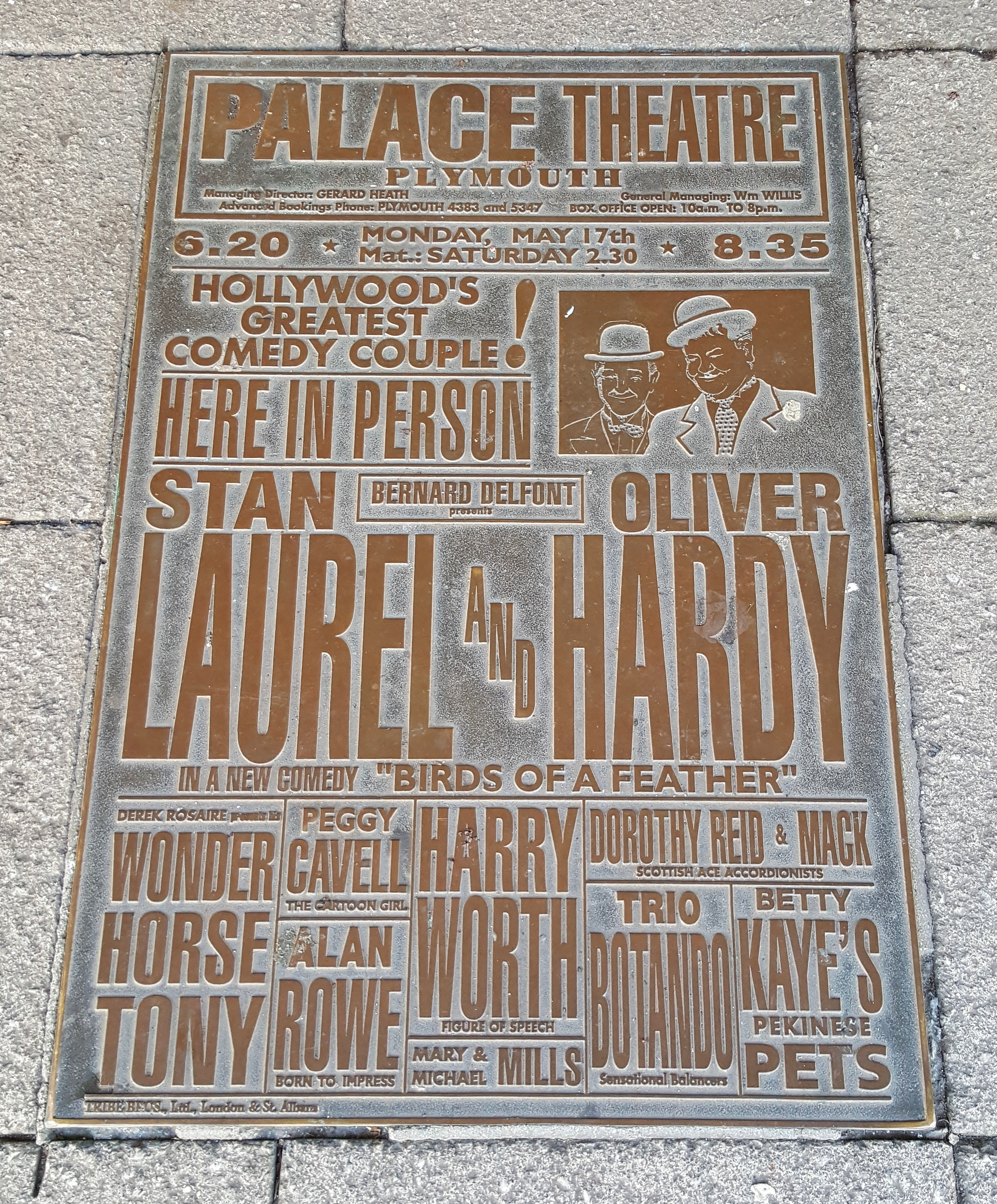 This brass plate is on the pavement outside the Palace Theatre, Plymouth. The Google Street View location is here. It commemorates the performance of Laurel and Hardy at the theatre on Monday 17 May 1954, which turned out to be their final stage performance together.